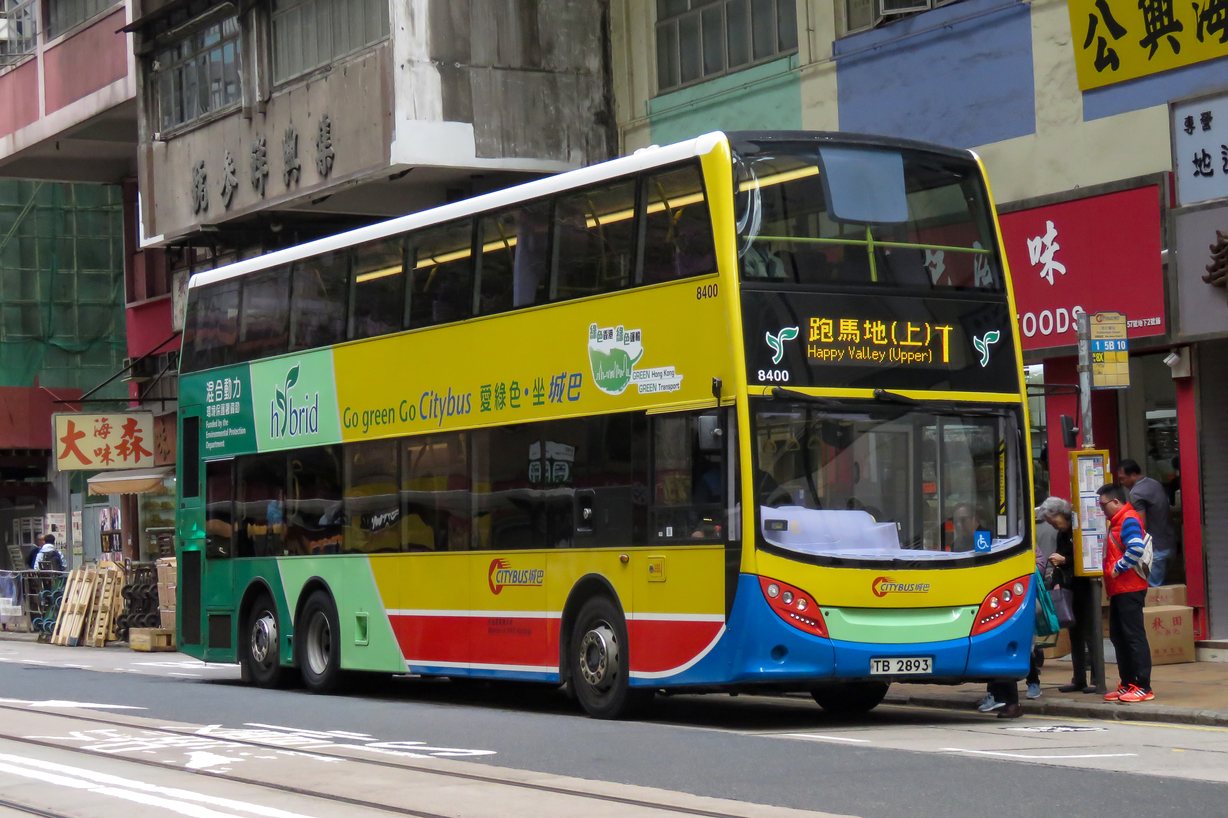 Route T? A bug occurred on its display system, but it doesn't matter.